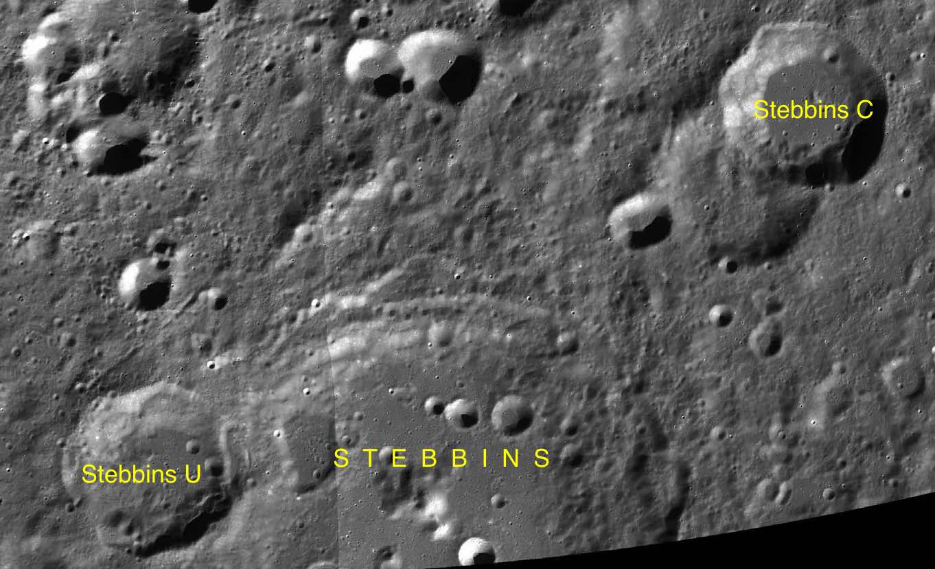 Part of the chart LAC-8 used for the presentation.